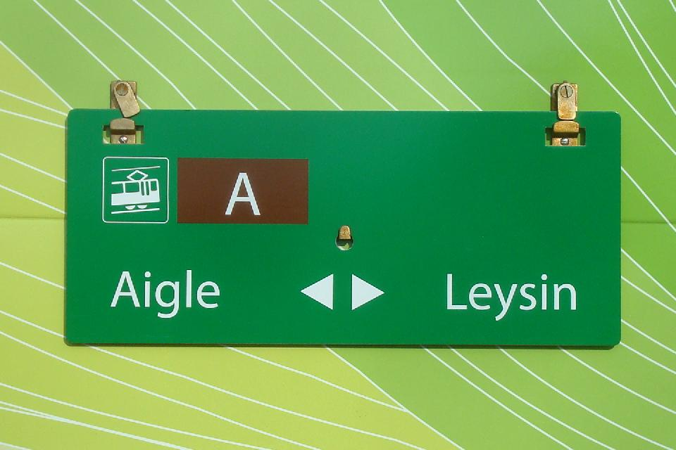 Train destination sign in the new designe of the Transports Publics du Chablais (TPC) in Aigle.